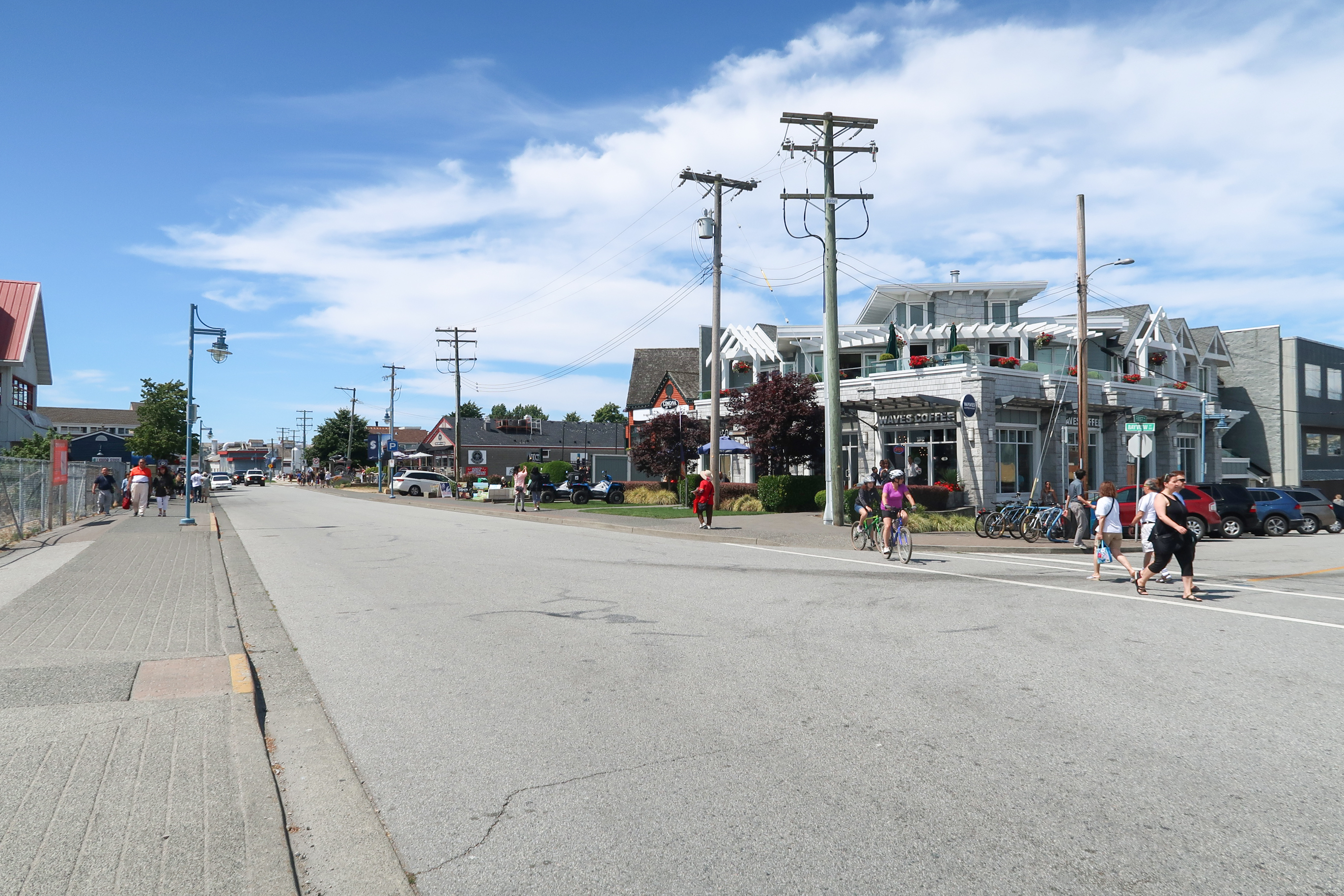 Bayview Street